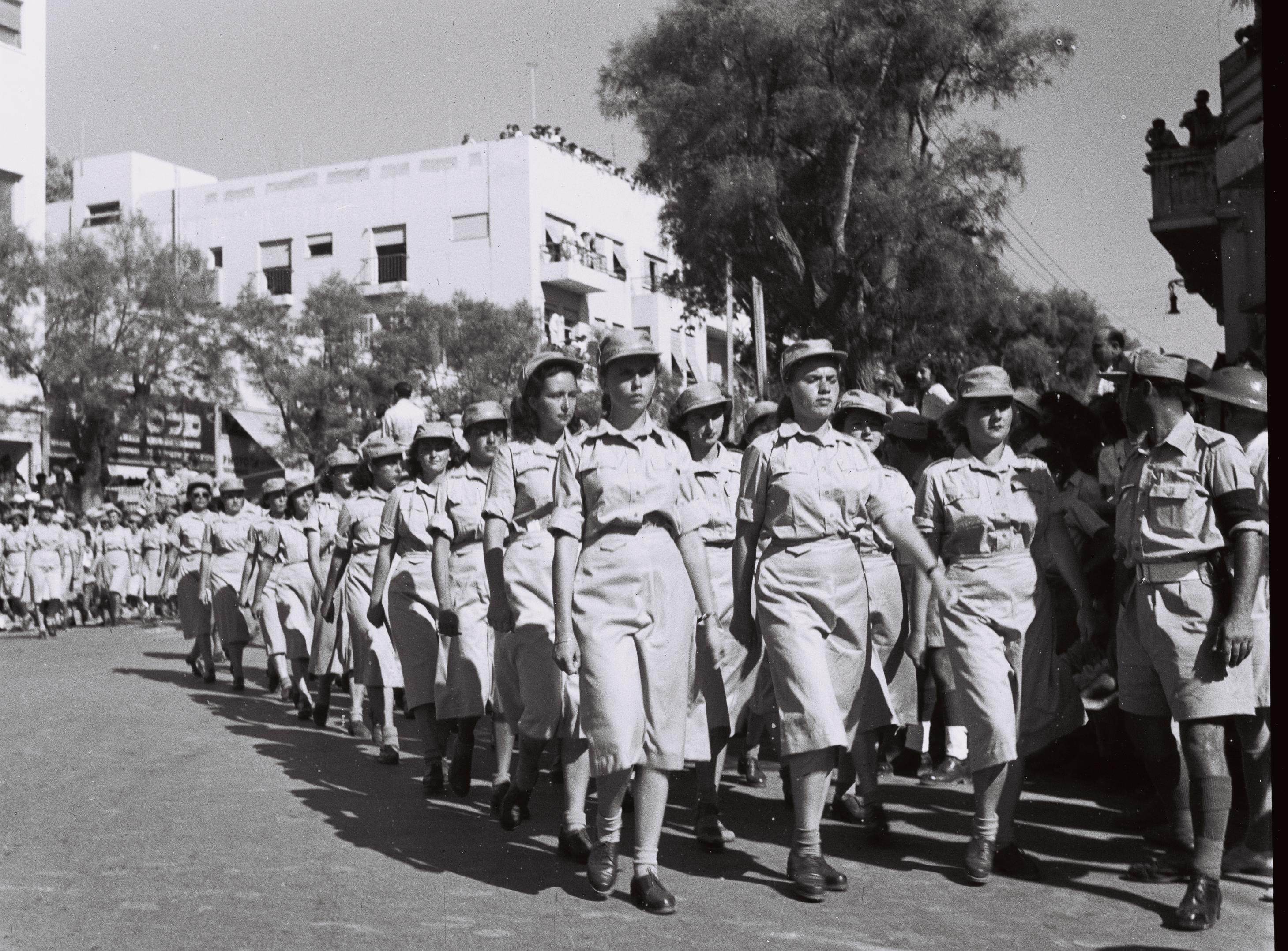 A UNIT OF WOMEN SOLDIERS MARCHING IN THE "YOM HAMEDINA" PARADE IN TEL AVIV'S ALLENBY STREET.